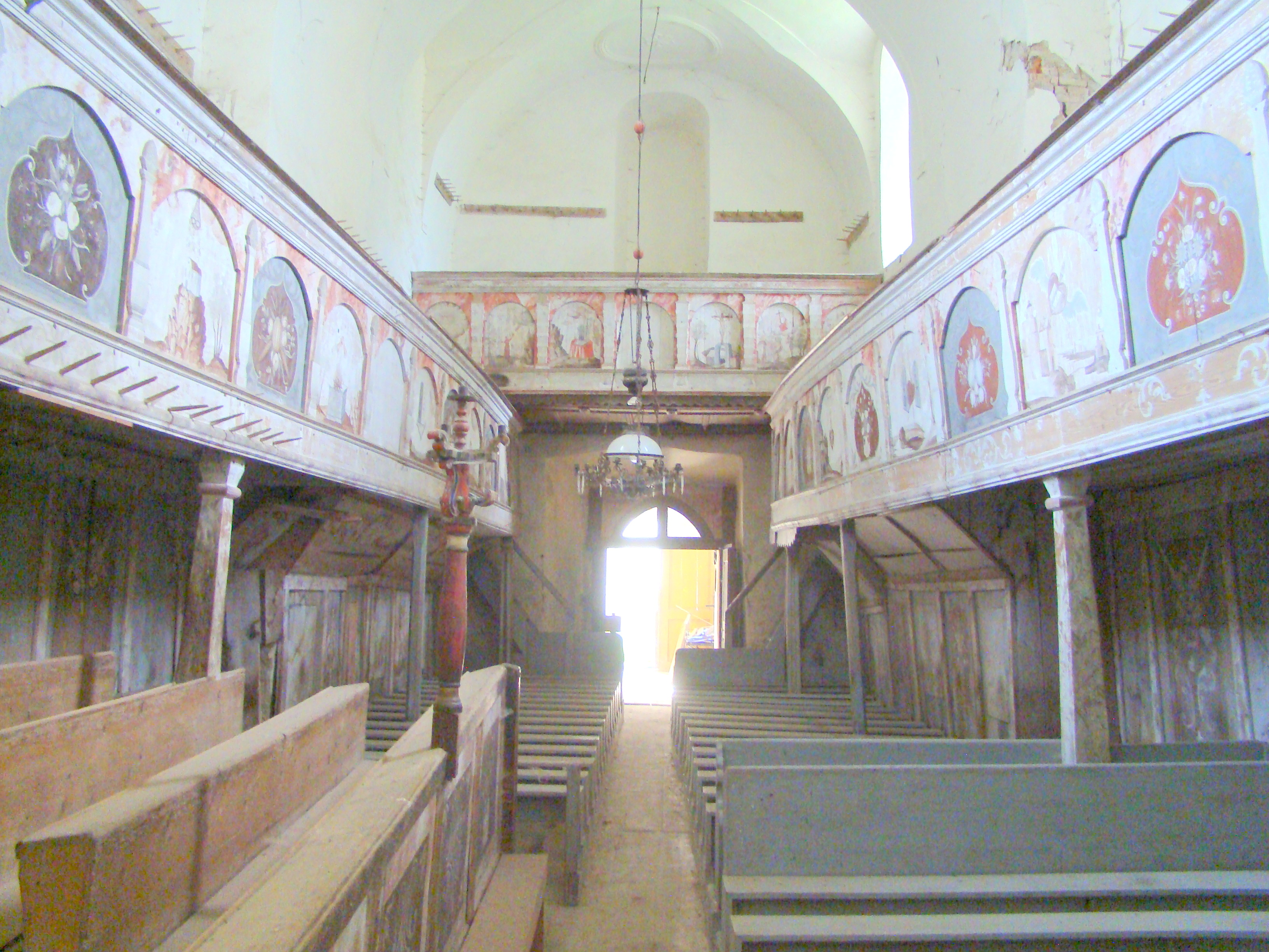 Lutheran church in Beia, Braşov county, Romania